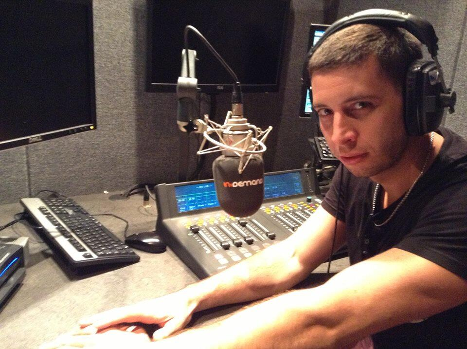 Elliot John Gleave at The Hits Radio